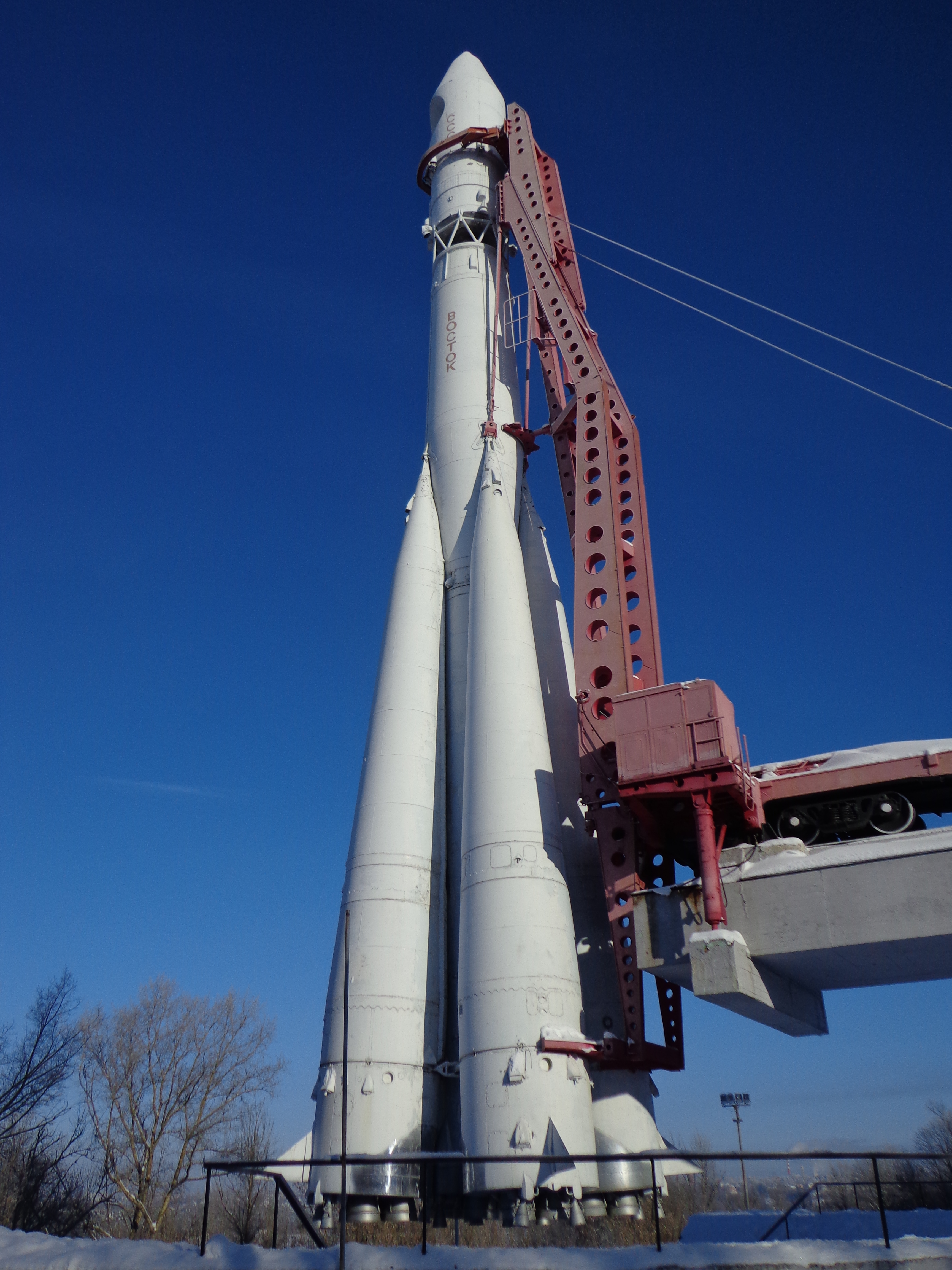 Vostok rocket on Tsiolkovsky Museum park, Kaluga